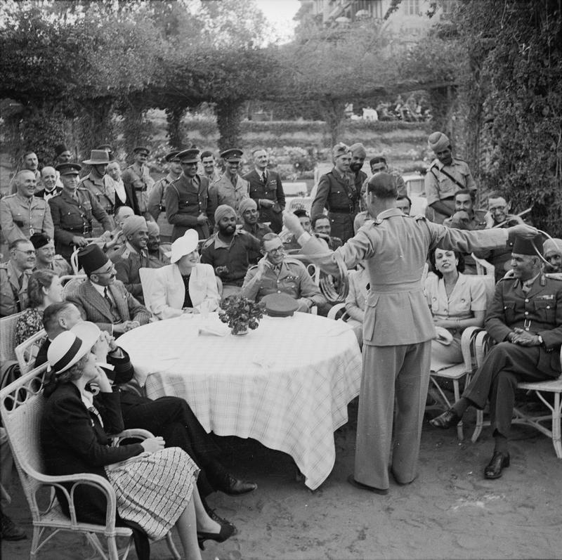 The British Army in North Africa 1942 Indian Army officers and civilian VIPs being entertained by the famous illusionist Captain Jasper Masskelyne at a garden party at Mena House in Cairo, 19 April 1942.